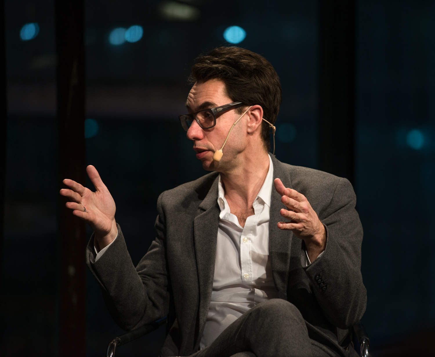 Georg Diez at Forum / Debate in KulturhusetStadsteatern in Stockholm on March 5, 2018 in a conversation about how liberal democracies can defend themselves against extremism without giving up basic values.